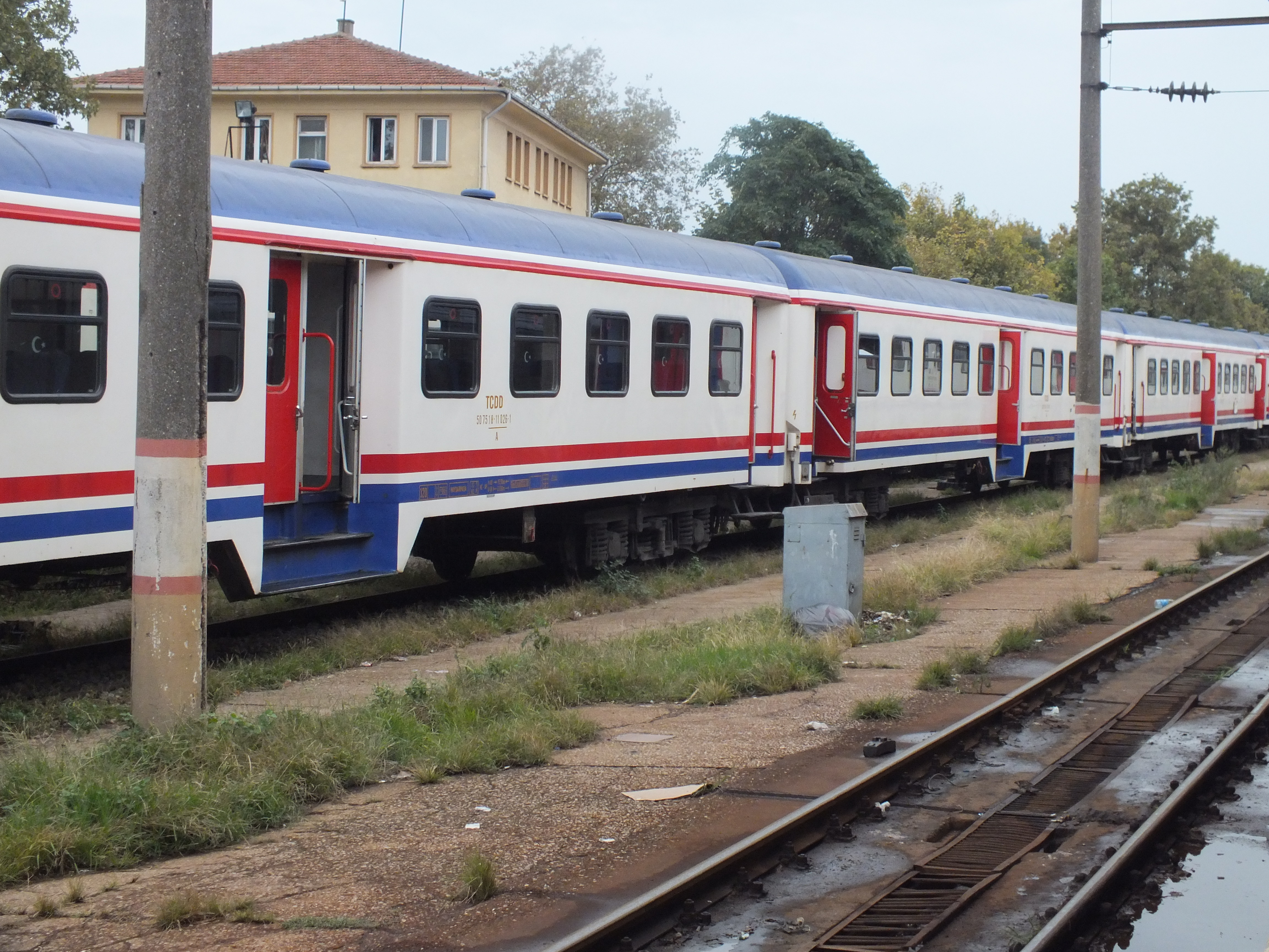 Regional cars at Haydarpasa Terminal.